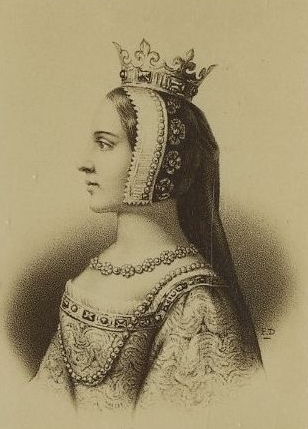 Joan Countess of Auvergne or Jeanne de Boulogne wife of John II of France